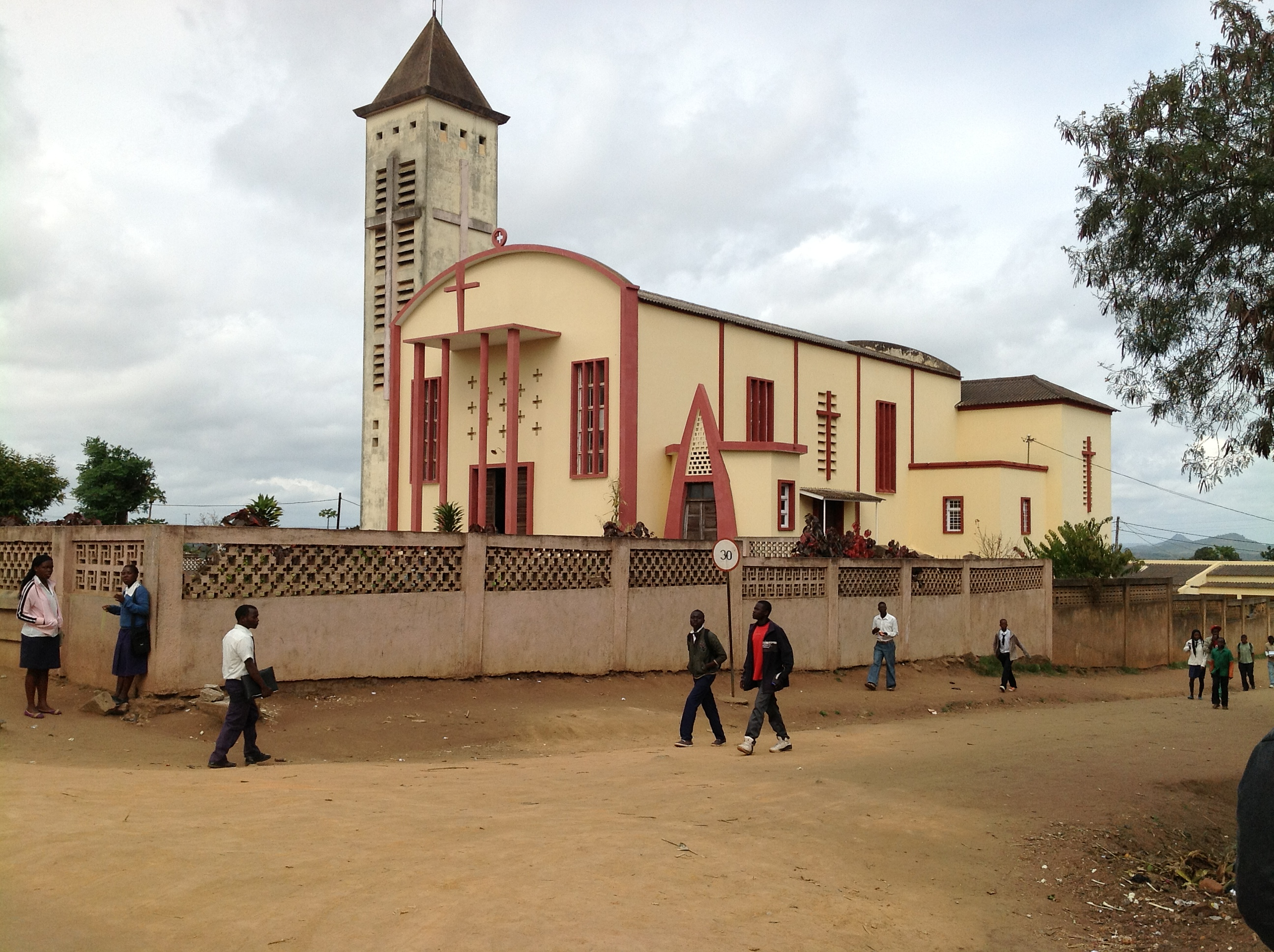 Church in Gondola, Mozambique